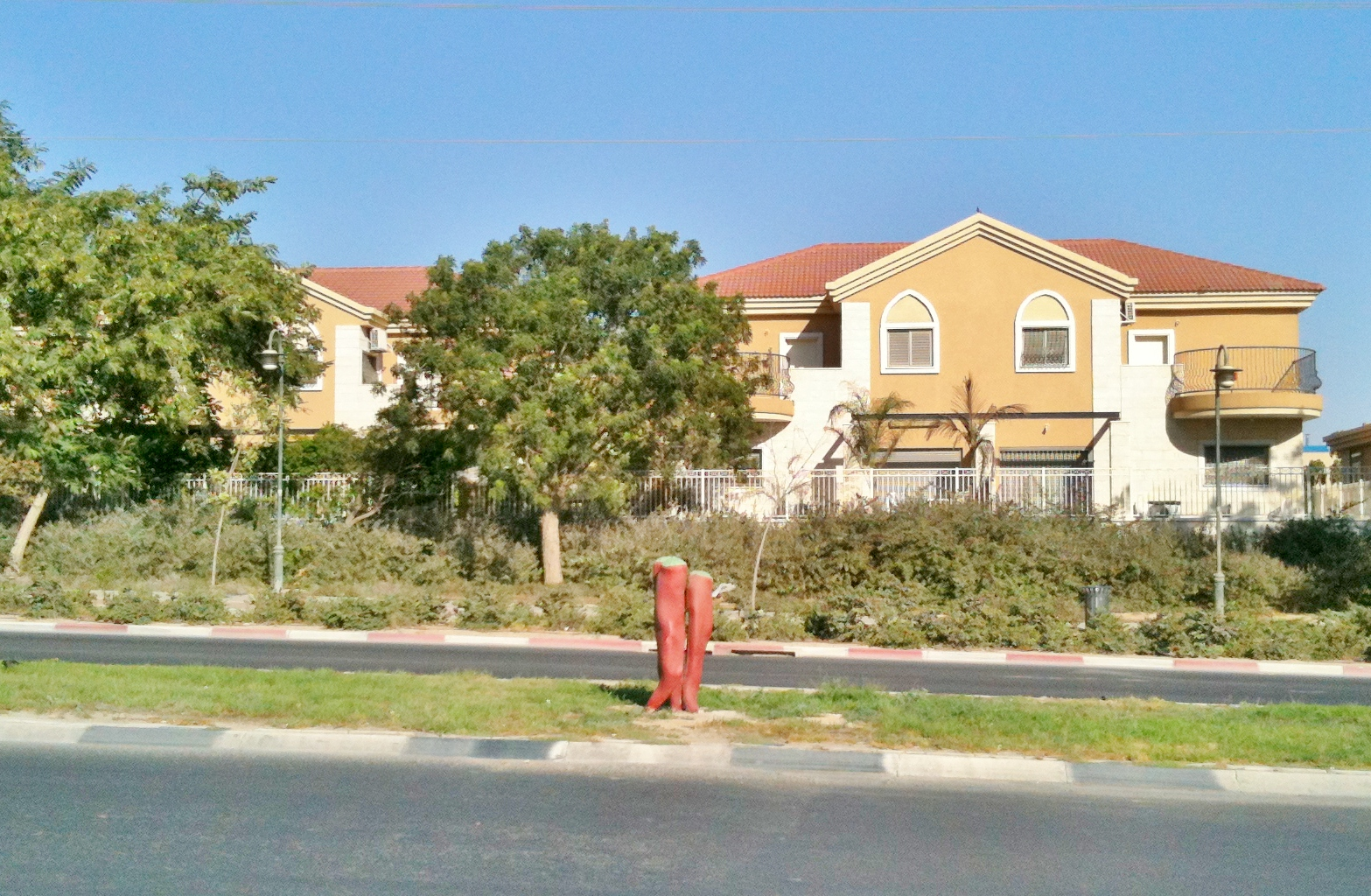 A Cottage in Ramot, Beersheba